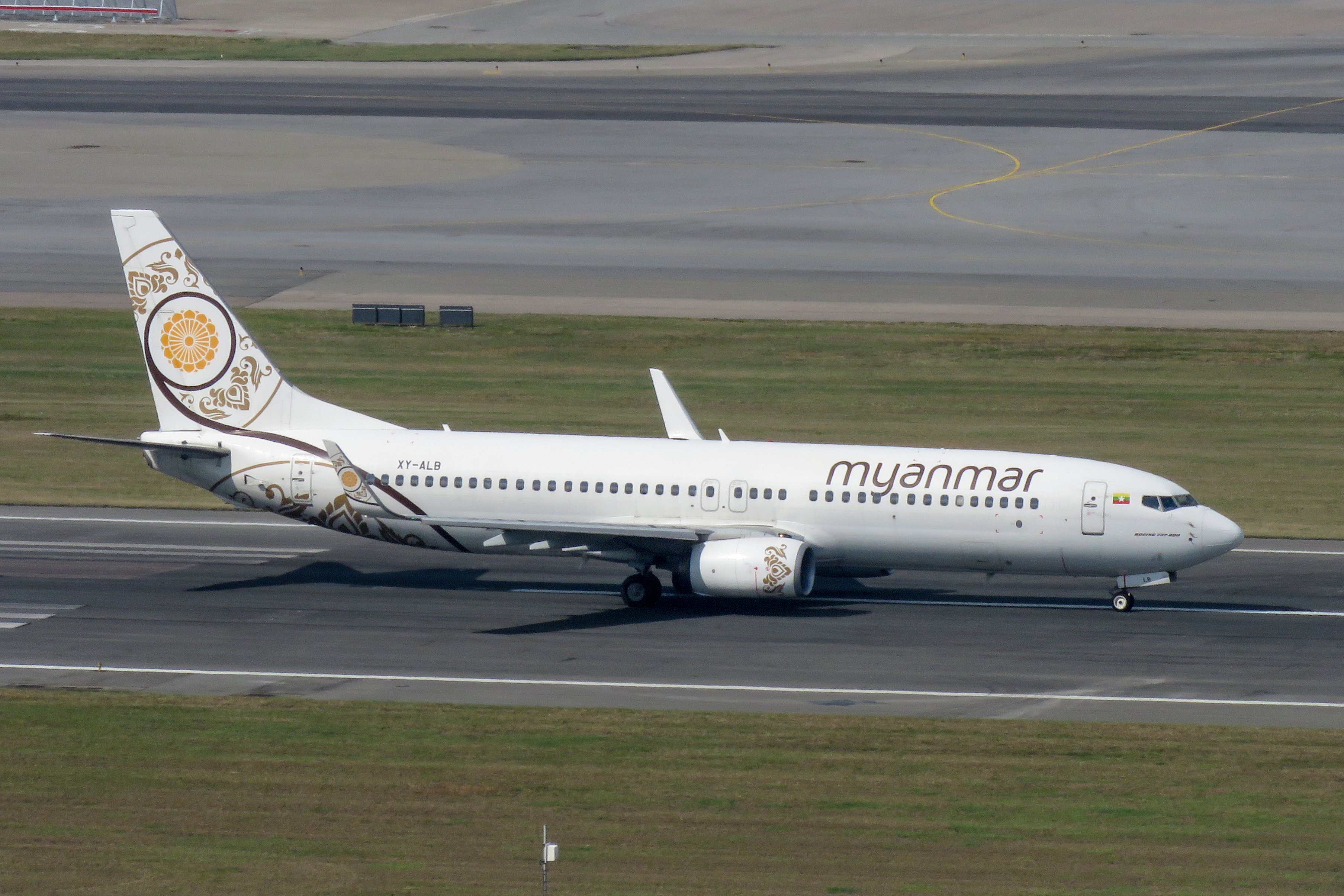 Unionair 8028 to Yangon.